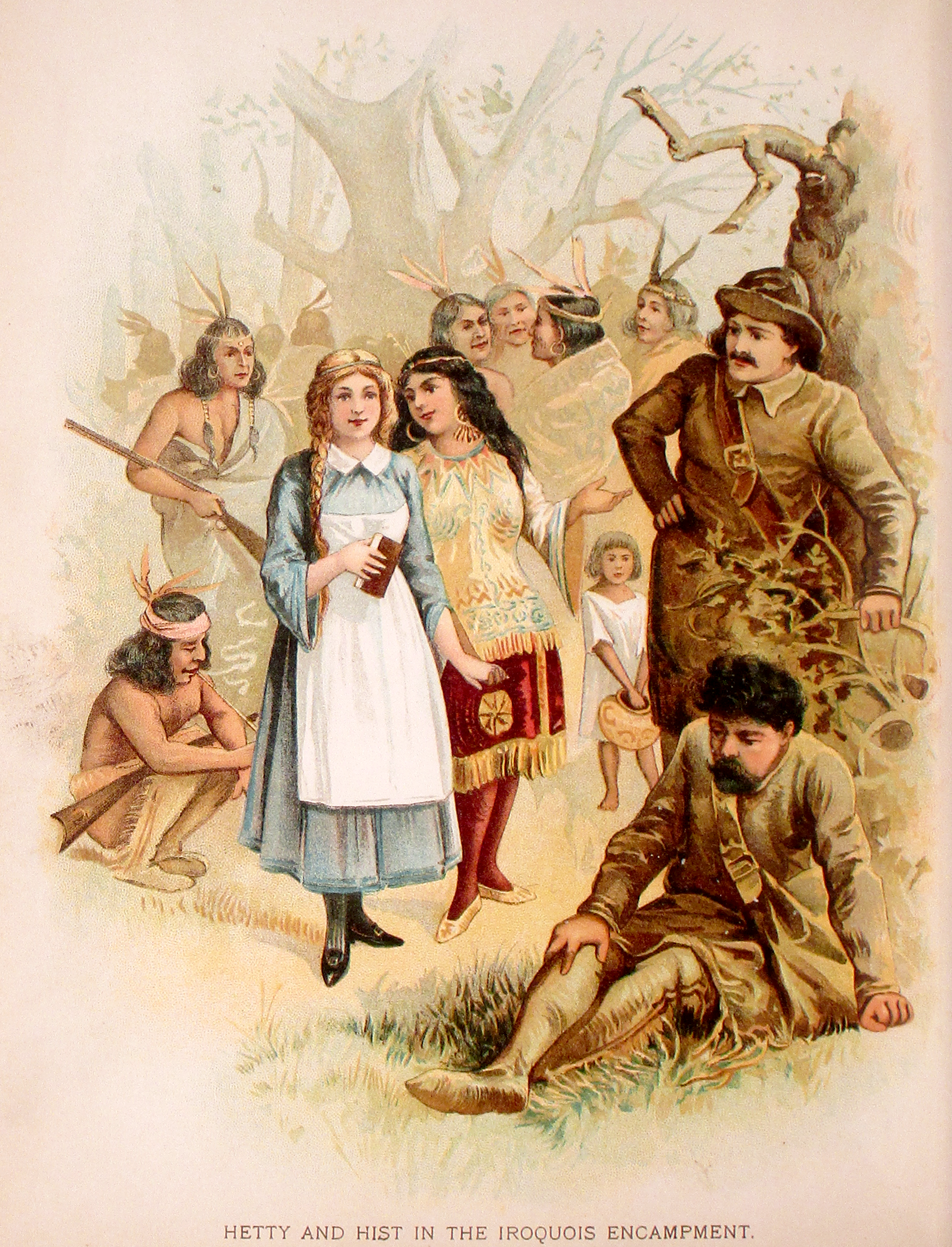 Color lithograph captioned "Hetty and Hist in the Iroquois Encampment"